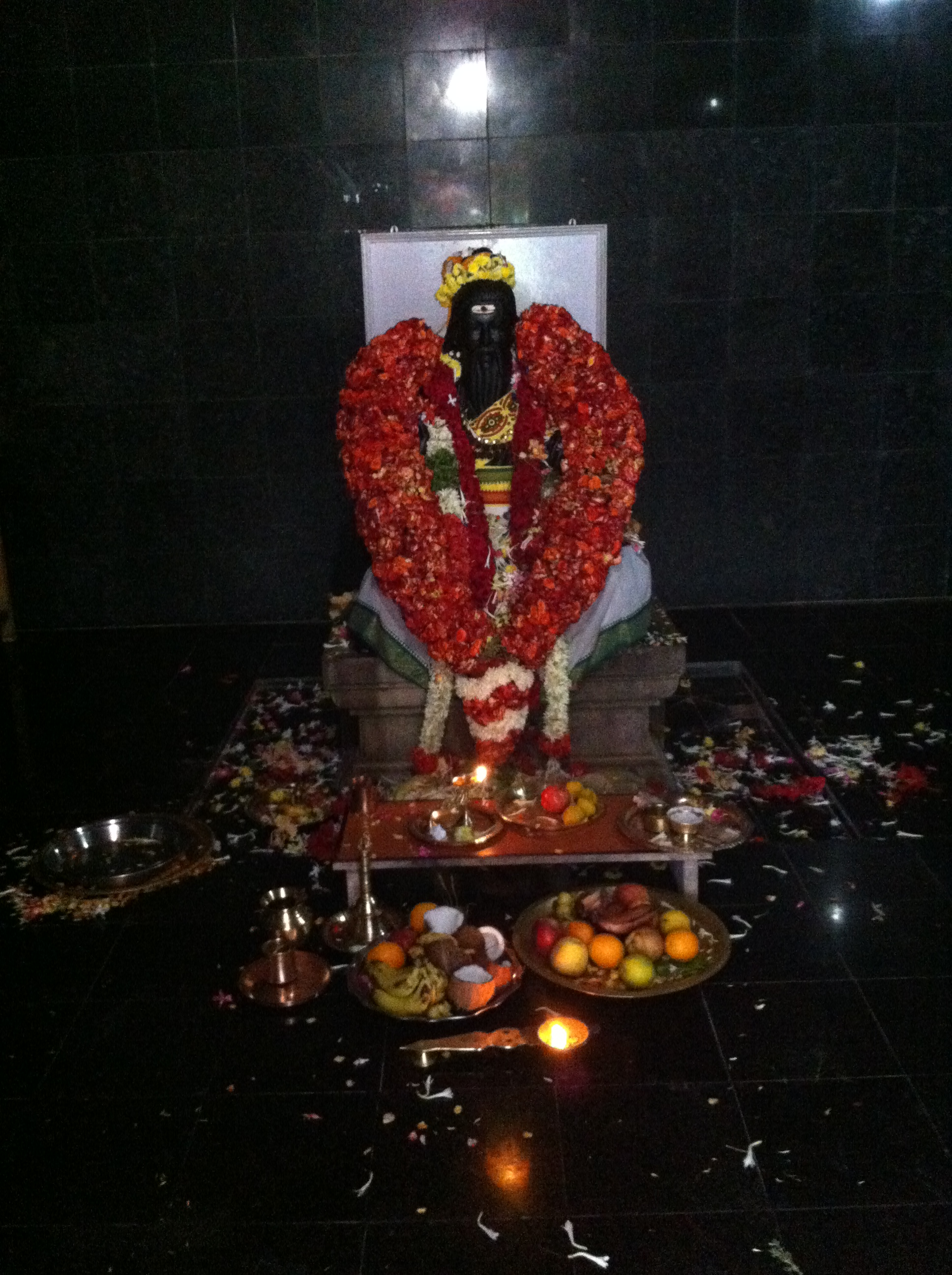 Sri Kagapujandar